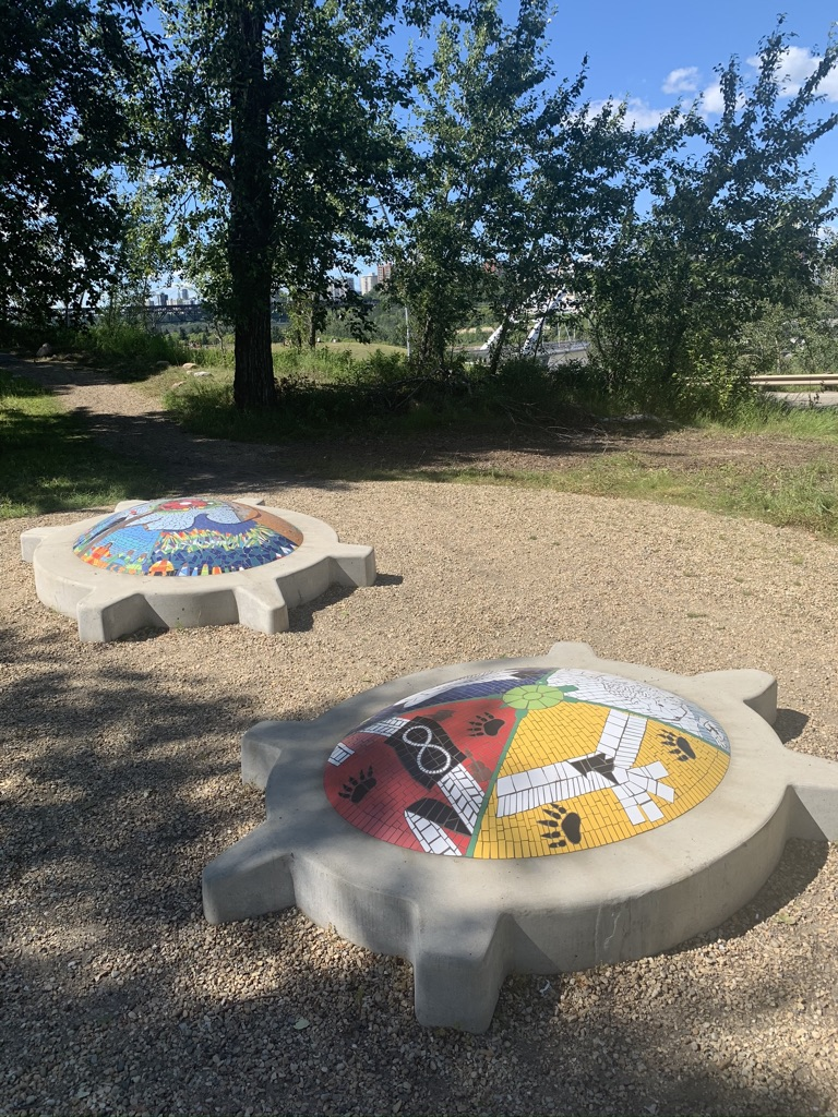 mamohkamatowin (Helping Each Other) by Jerry Whitehead at the Indigenous Art Park ᐄᓃᐤ (ÎNÎW) River Lot 11∞